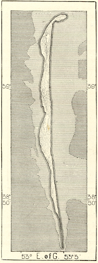 Ogurchinsky Island map